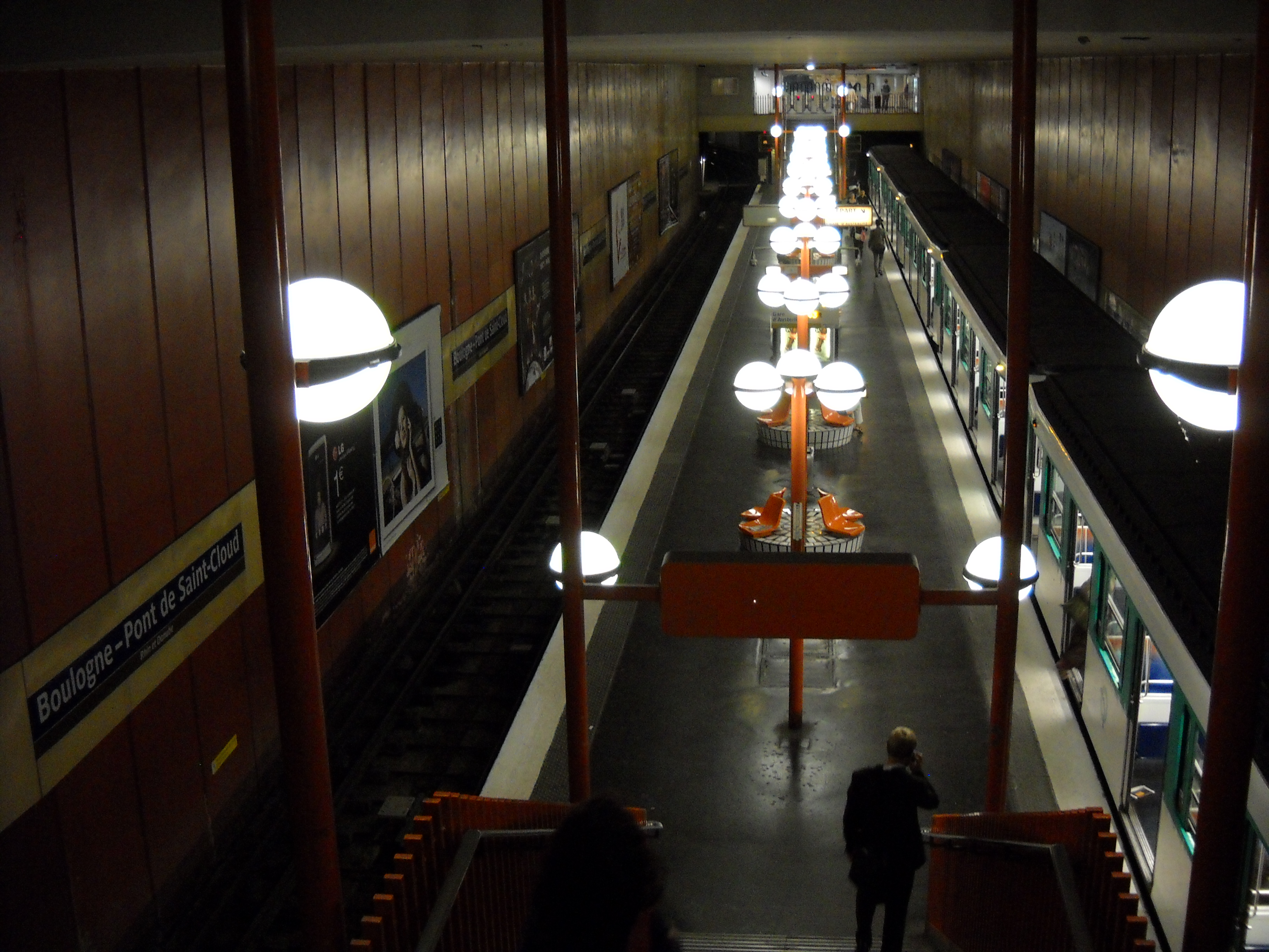 Boulogne-Pont de Saint-Cloud station, on Paris metro line 10.